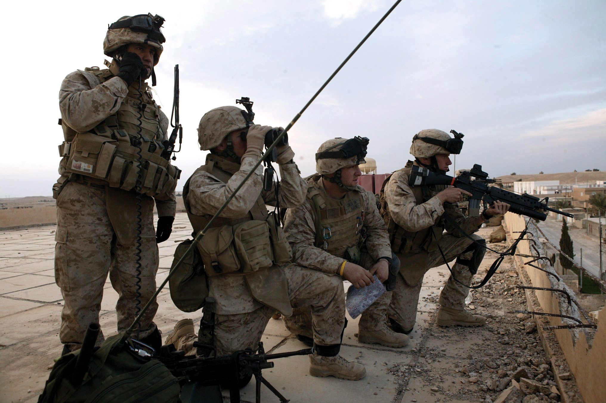 The Marines of Firepower Control Team 1 (FCT-1), 3rd Platoon, 2nd Air Naval Gunfire Liason Company (ANGLICO), RCT-7, conduct a "talk on", directing an aircraft on an armed reconnaissance mission over potential targets from a rooftop in Haditha. ANGLICO Marines incorporated fixed and rotary wing assets in the fight during Operation River Blitz. They were able to drop to 500 lbs bombs and call in a barrage from an AC-130 Gunship.